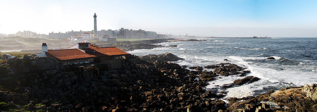 Leça da Palmeira, Portugal. View of Lighthouse, Boa Nova Tea Pavillion & Restaurant and Beaches